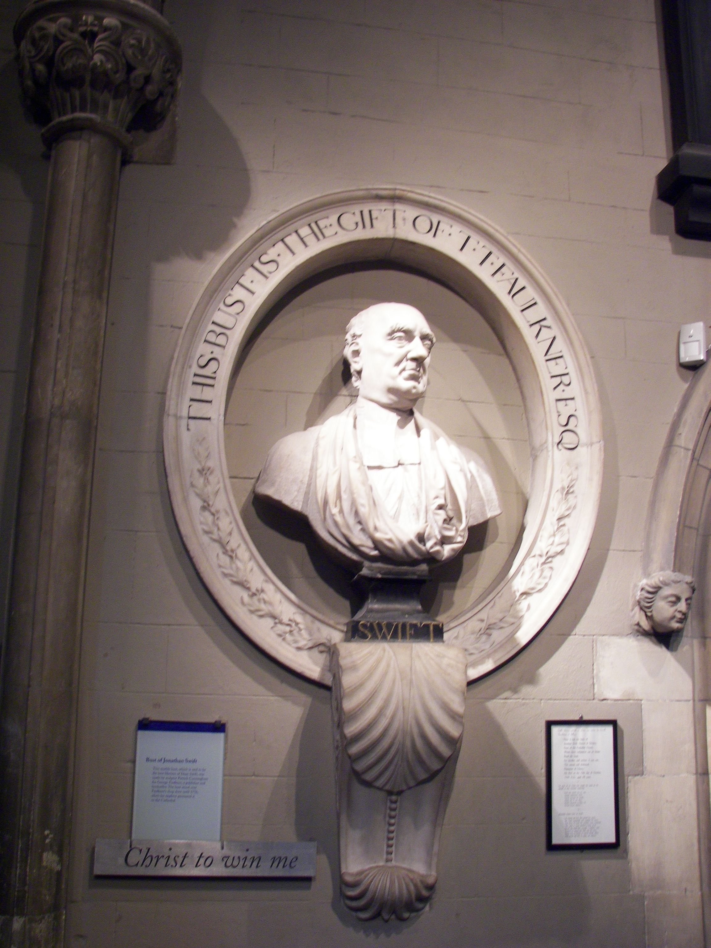 Bust of Jonathan Swift near his burial spot in St. Patrick's Cathedral, Dublin.